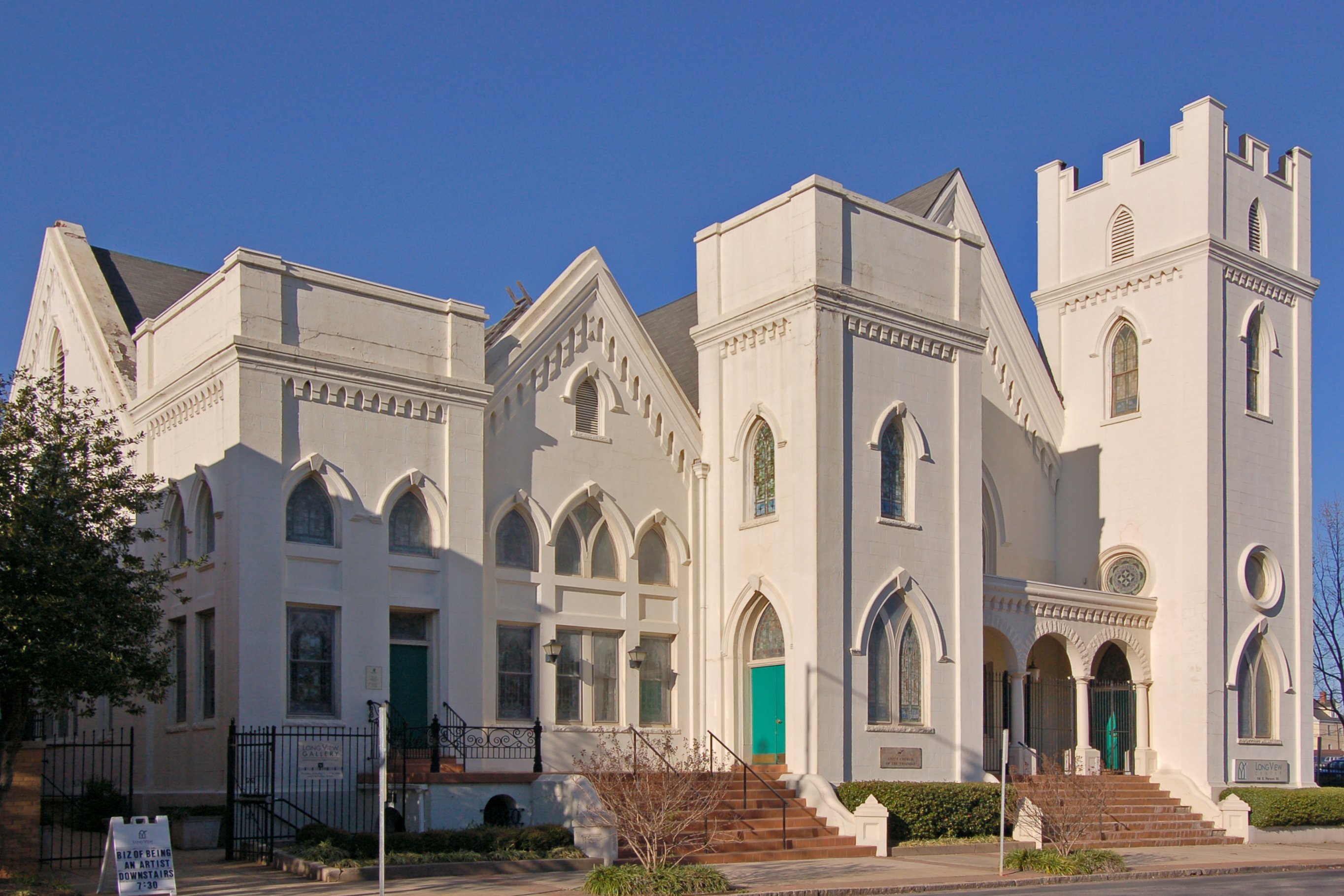 The Longview Center in downtown Raleigh, North Carolina